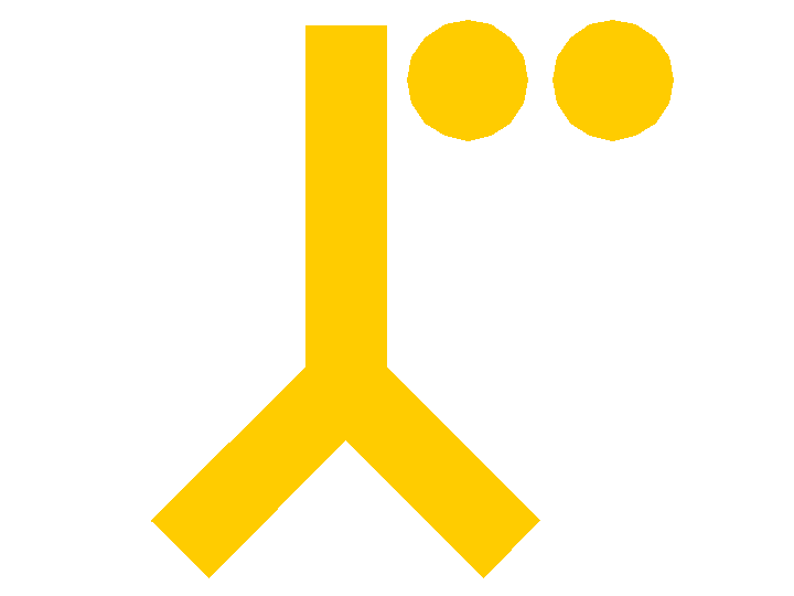 Mark of Ww2 GermanDivision Panzer 6 - 1940